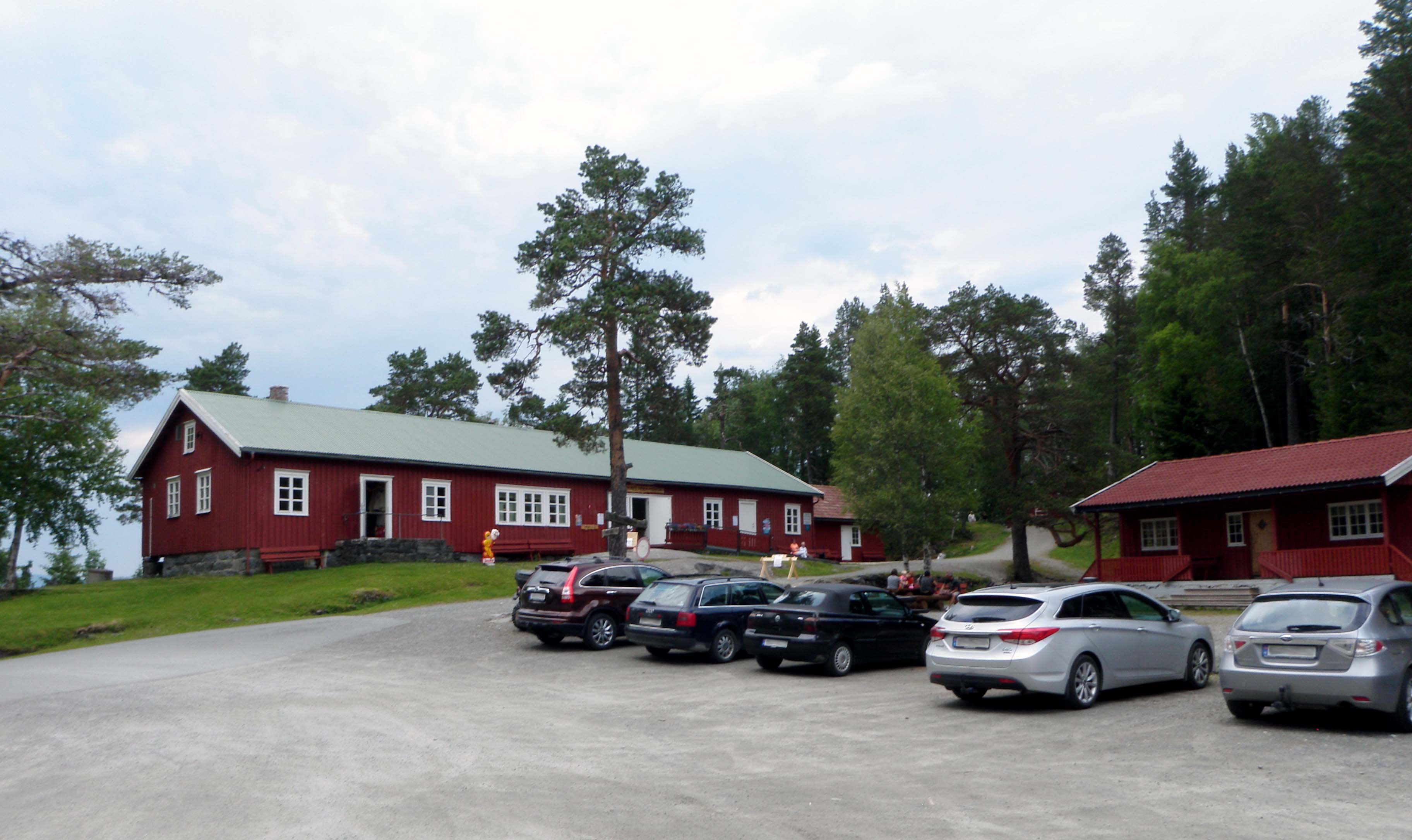 Buildings at Hegra Fortress, in Hegra, Norway. View from the parking lot. To the left is the restaurant building, while the the smaller building to the right is used by fortress guides and by the Hegra Rifle Association. The buildings originally forming the military camp at Hegra Fortress were all destroyed in the Battle of Hegra Fortress in 1940, and the present buildings were raised post-war.